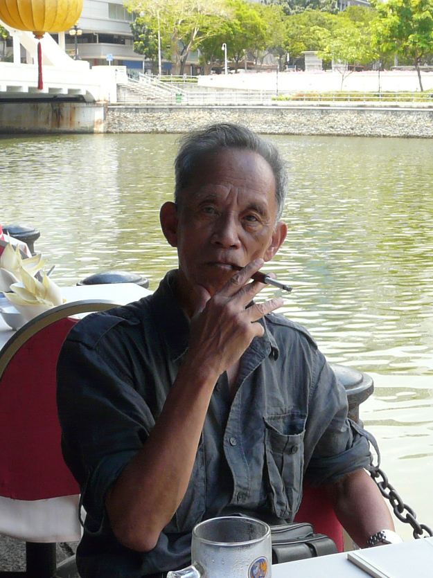 picture of Dang Phong